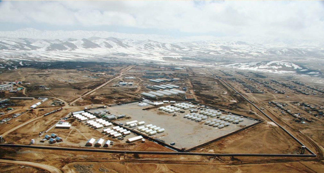 The U.S military’s Forward Operating Base (FOB) Gardez is located to the east of town along the Khost-Gardez Road. Once a Taliban stronghold, Gardez is now a place of relative security and home to the oldest Provincial Reconstruction Team (PRT) in the country, established in January 2003.